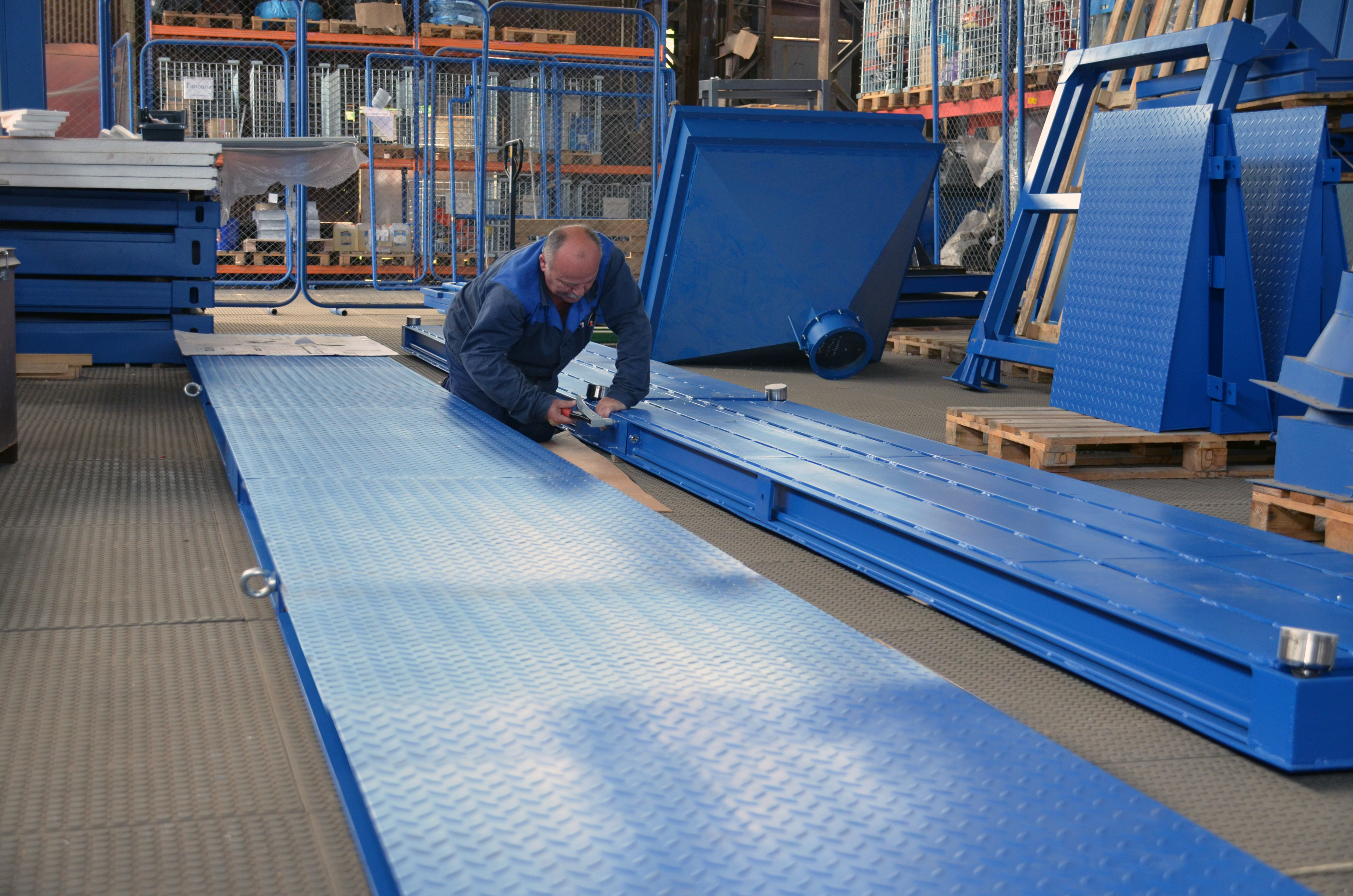 Production of truck scales